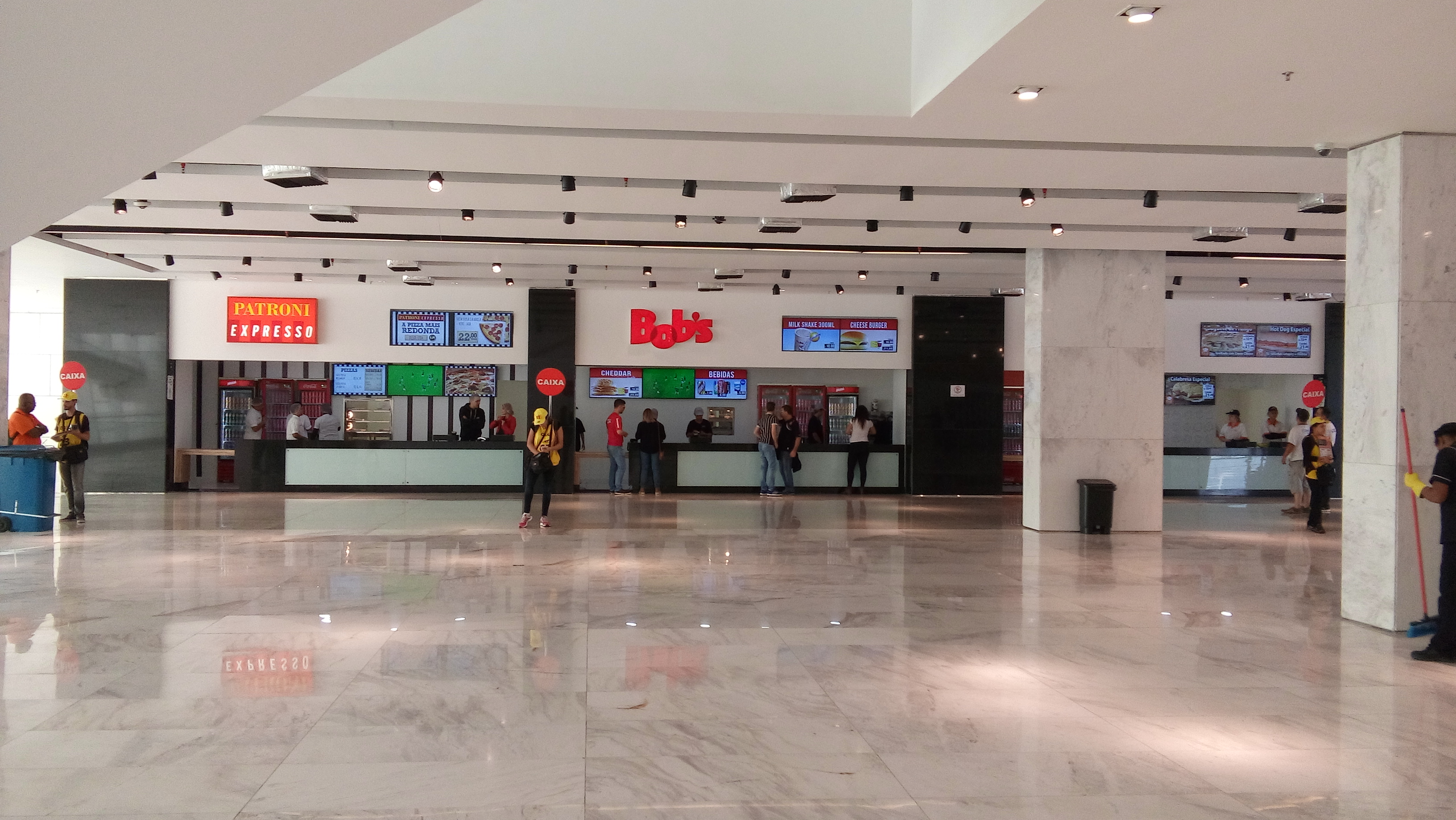 Food Court - Sector Upper West / North Arena Corinthians